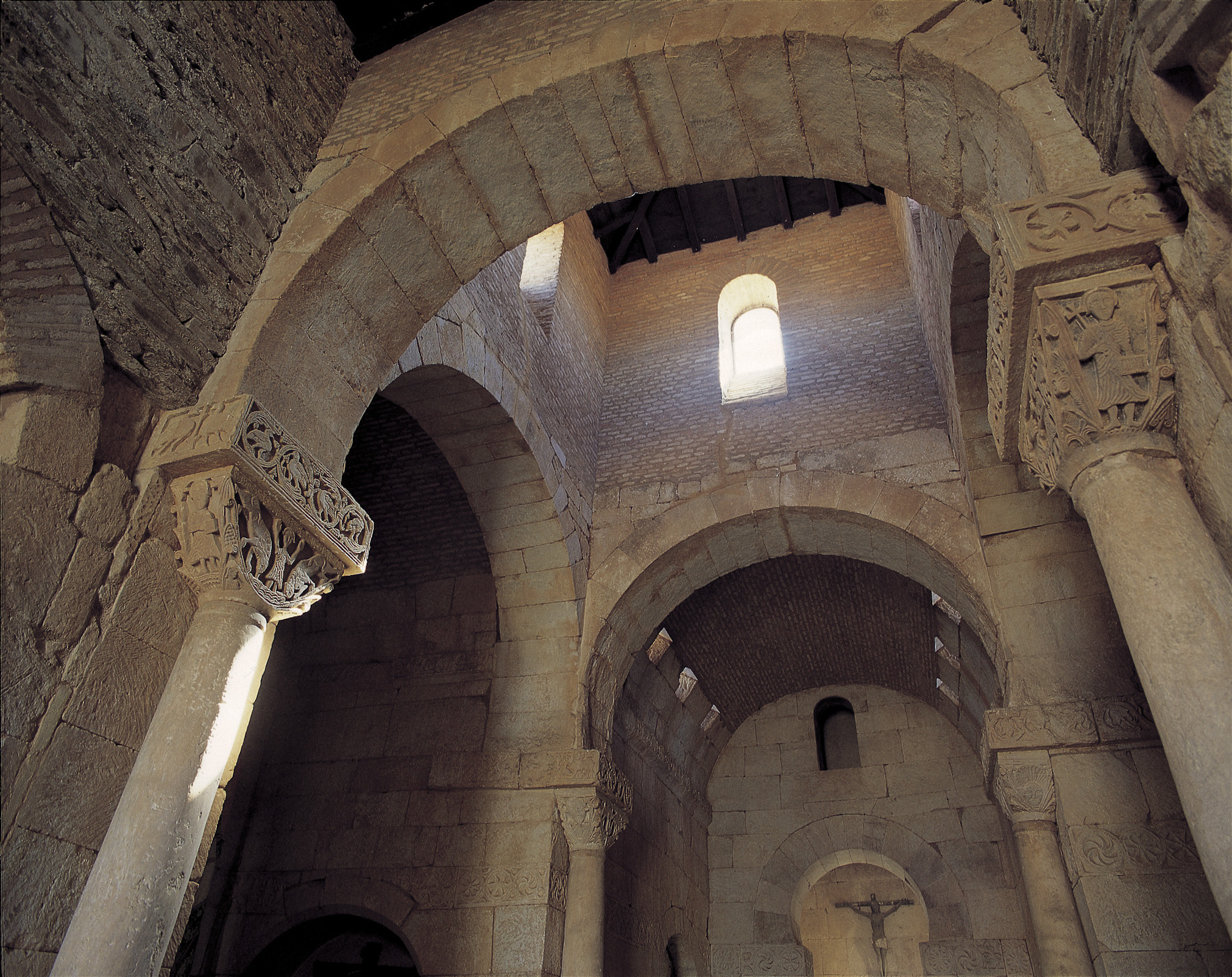 San Pedro de la Nave Church, Campillo, Zamora